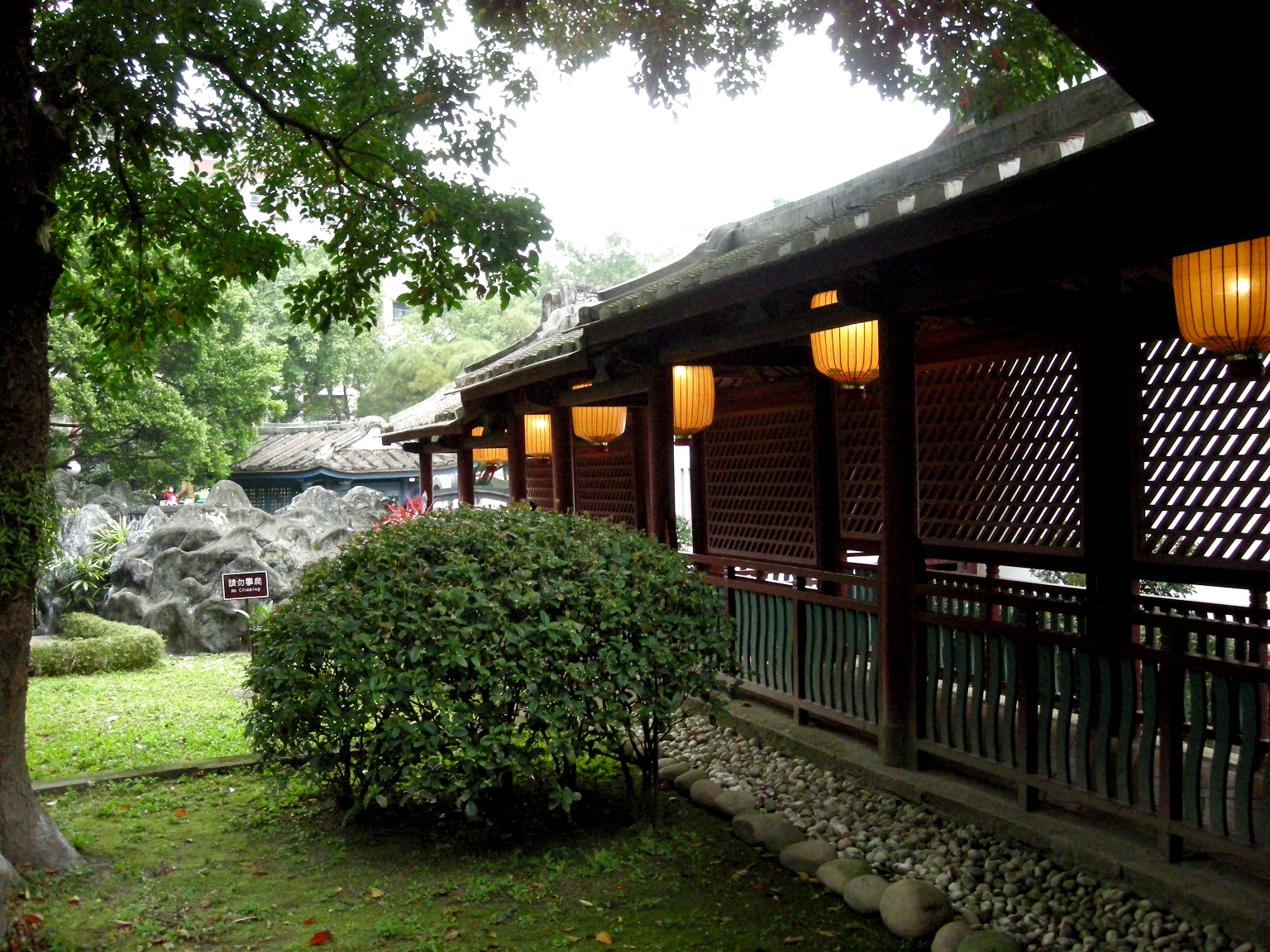 Arcade at Lin Garden, New Taipei City, Taiwan.